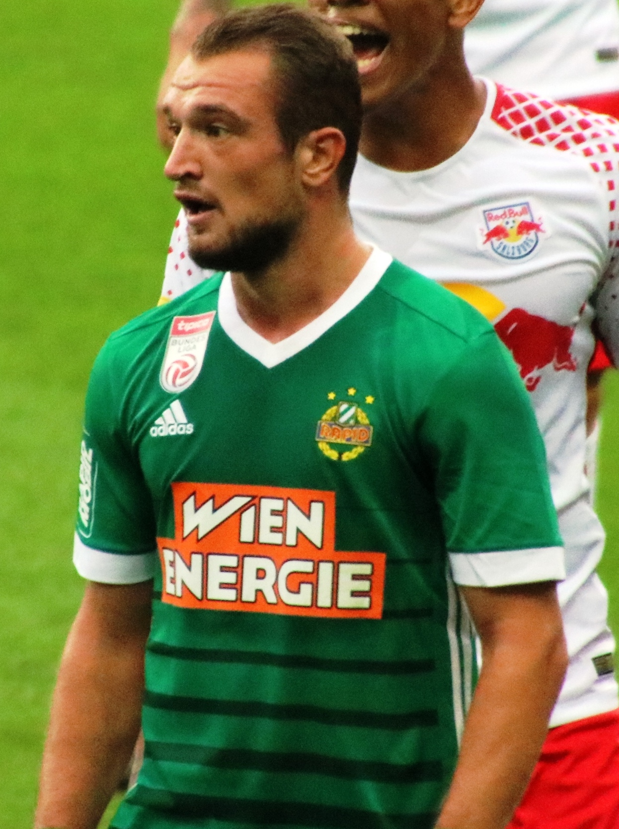 Austrian Bundesliga league match